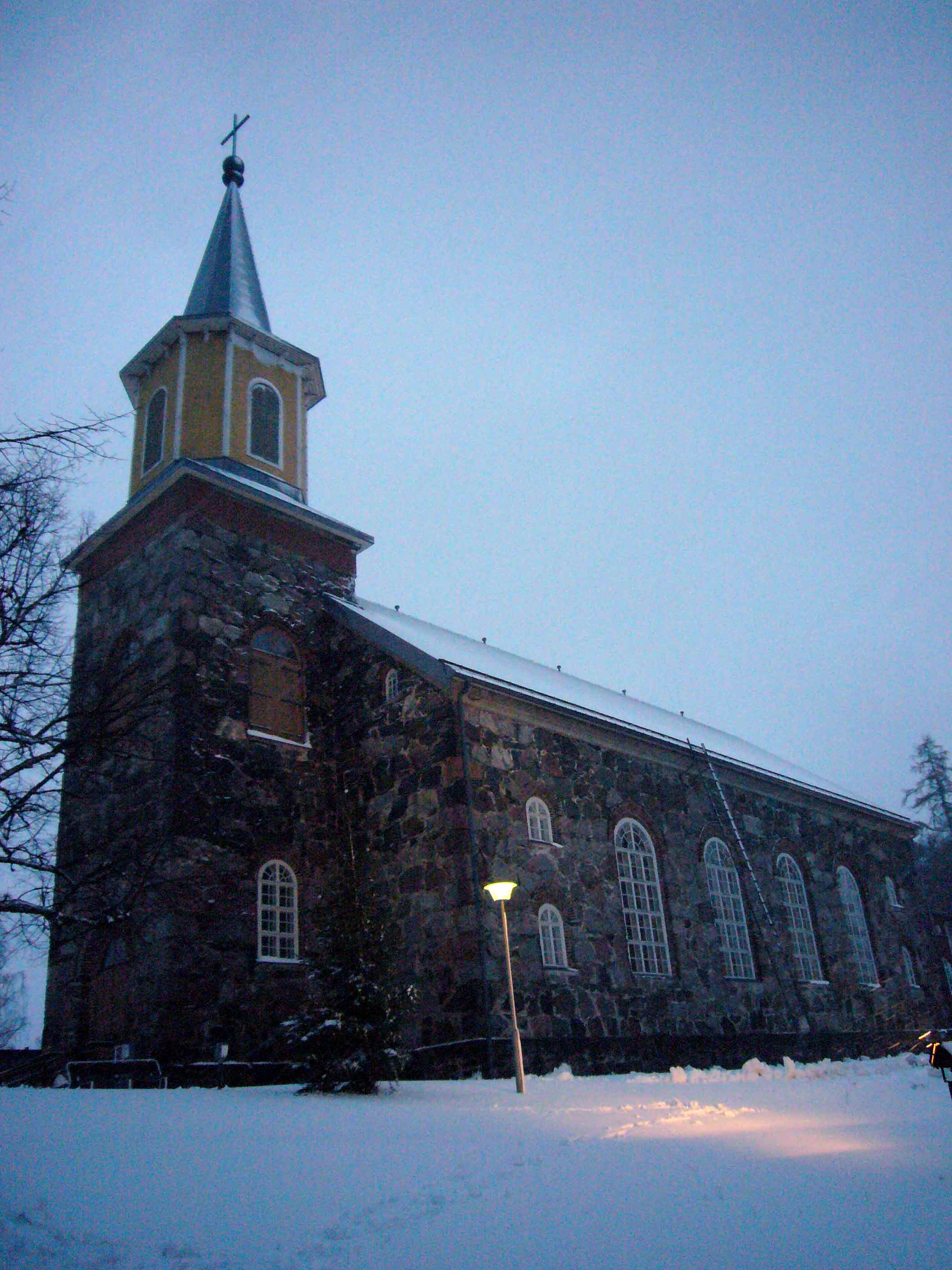 Church of Karjalohja, Finland